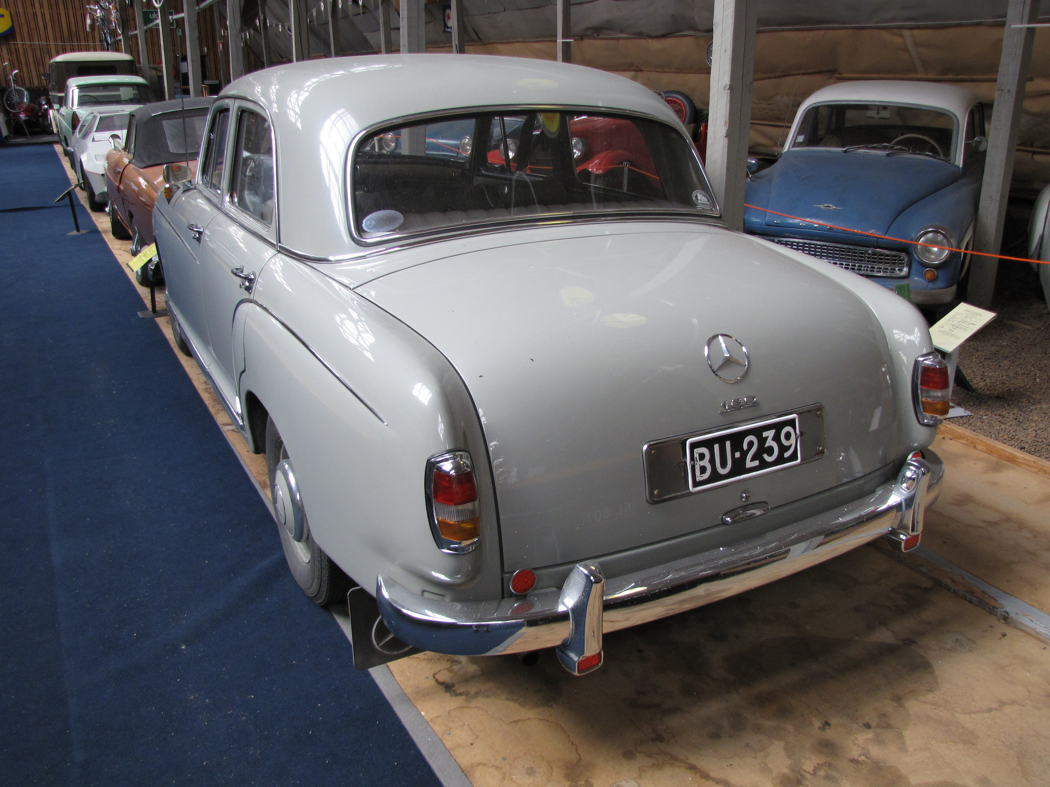 Mercedes-Benz 180a model 1958. R4 1897 cc 74 hp. Photographed in Espoo Automobile Museum.